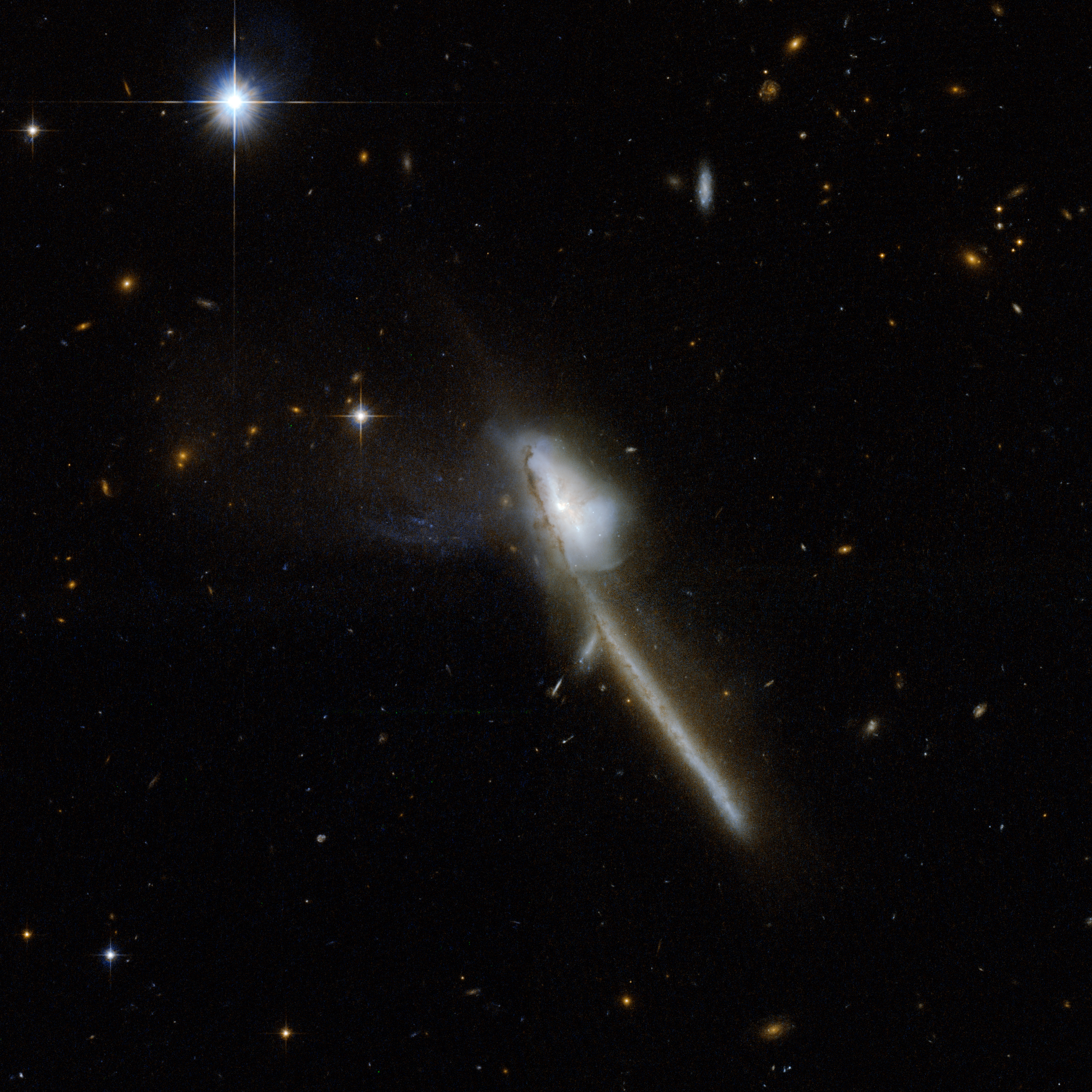 Markarian 273 is a galaxy with a bizarre structure that somewhat resembles a toothbrush. The Hubble image shows an intricate central region and a striking tail that extends diagonally towards the bottom-right of the image. The tail is about 130 thousand light-years long and is strongly indicative of a merger between two galaxies. Markarian 273 has an intense region of starburst, where 60 solar masses of new stars are born each year. Near-infrared observations reveal a nucleus with two components. Markarian 273 is one of the most luminous galaxies when observed in the infrared, and is located 500 million light-years away from Earth. This image is part of a large collection of 59 images of merging galaxies taken by the Hubble Space Telescope and released on the occasion of its 18th anniversary on 24th April 2008. About the objectObject nameMrk 273, UGC 8696, I Zw 071Object descriptionInteracting GalaxiesPosition (J2000)13 44 42.29 +55 53 10.5ConstellationUrsa MajorDistance500 million light-years (150 million parsecs)About the dataData descriptionThe Hubble image was created using HST data from proposal 10592: A. Evans (University of Virginia, Charlottesville/NRAO/Stony Brook University)InstrumentACS/WFCExposure date(s)November 16, 2001Exposure time37 minutesFiltersF435W (B) and F814W (I)